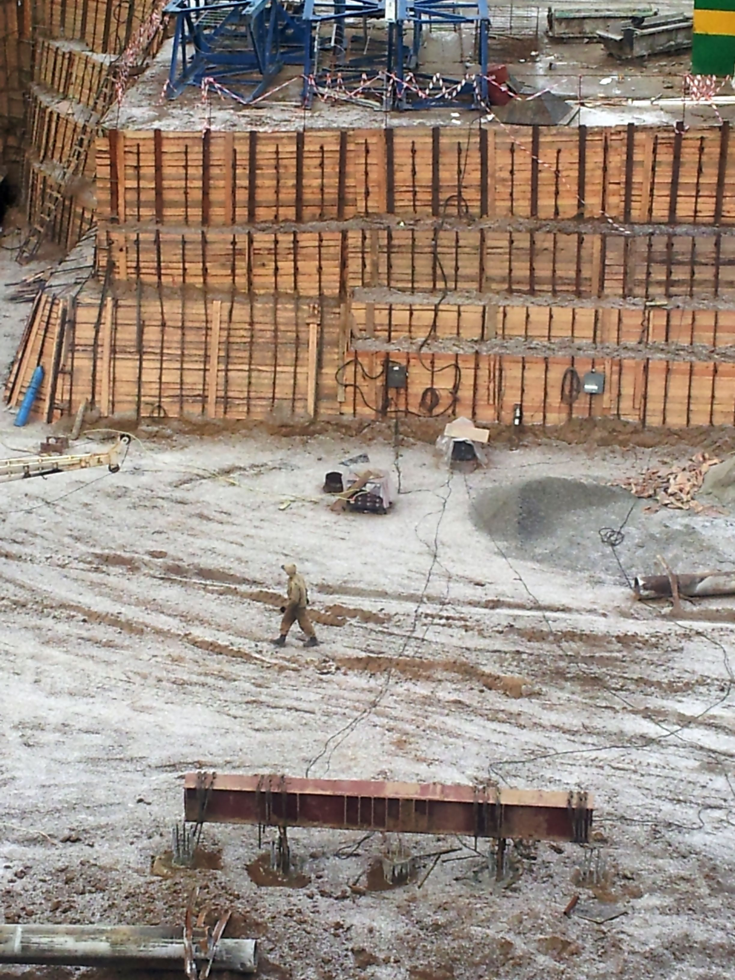 Concrete heating